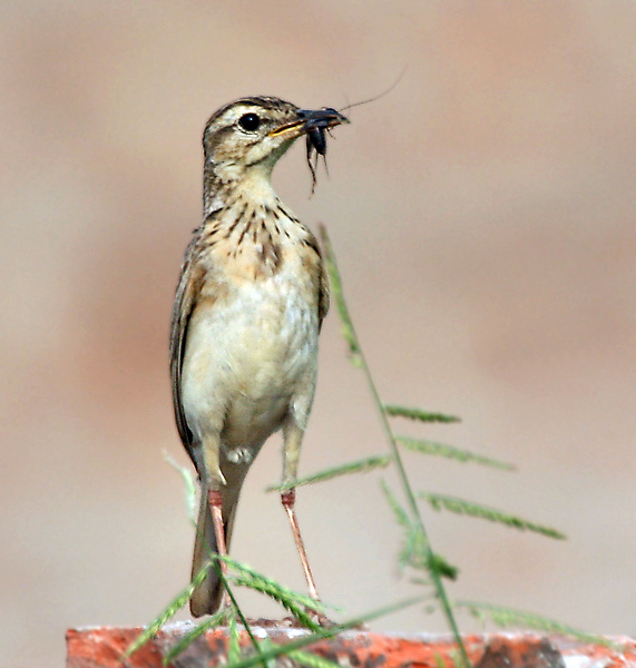 Paddyfield Pipit (Anthus rufulus) in Kolkata, West Bengal, India.